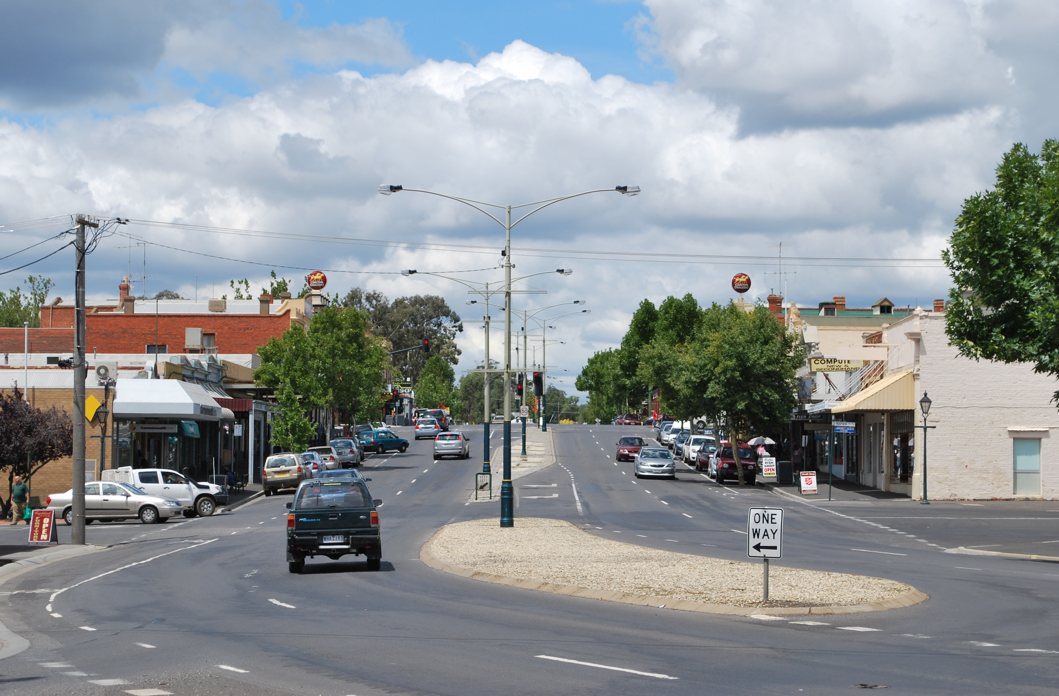 High St. the main street of Eaglehawk, Victoria and part of the Loddon Valley Highway